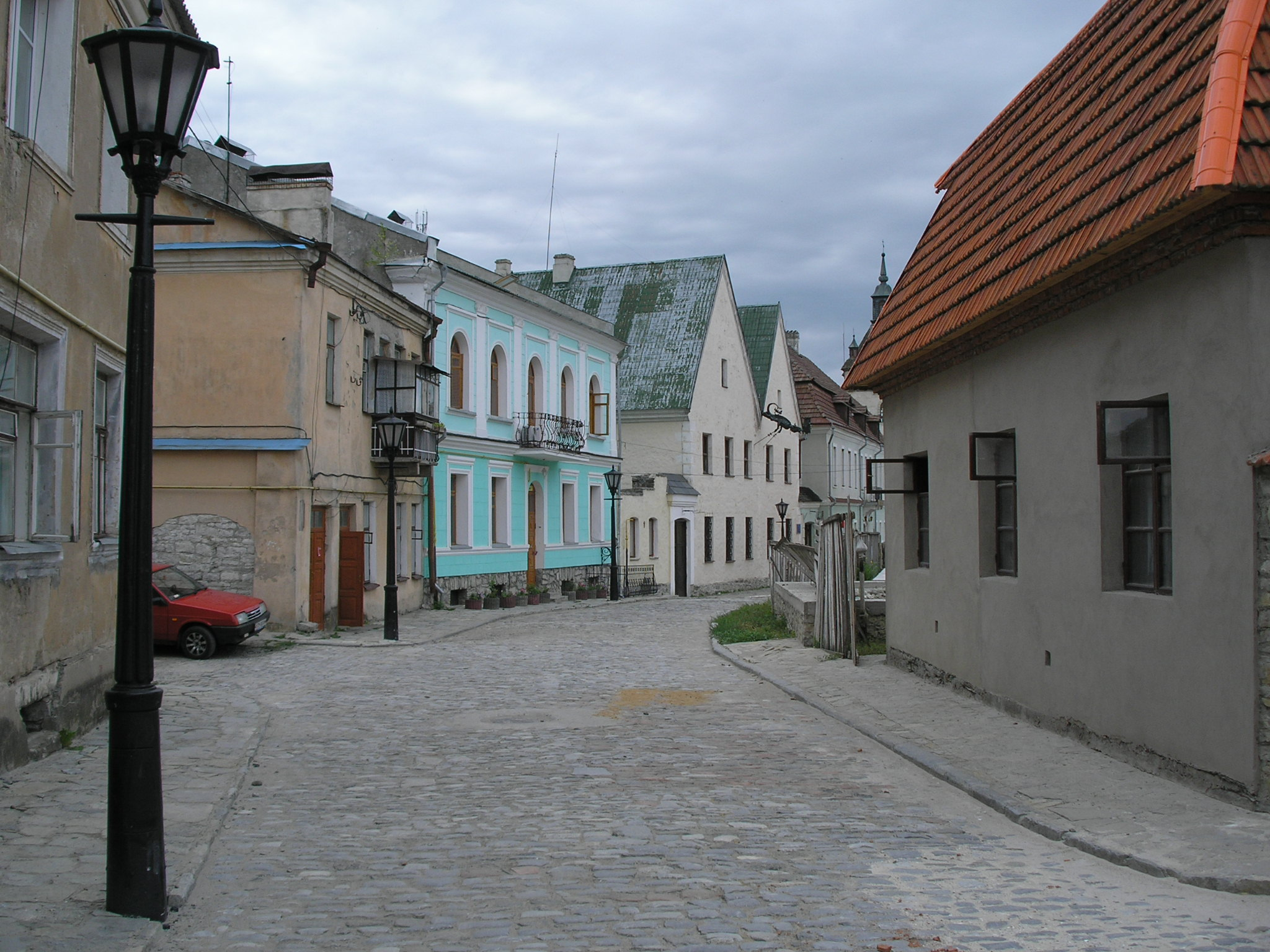 The old town of Kamianets-Podilskyi , Ukraine